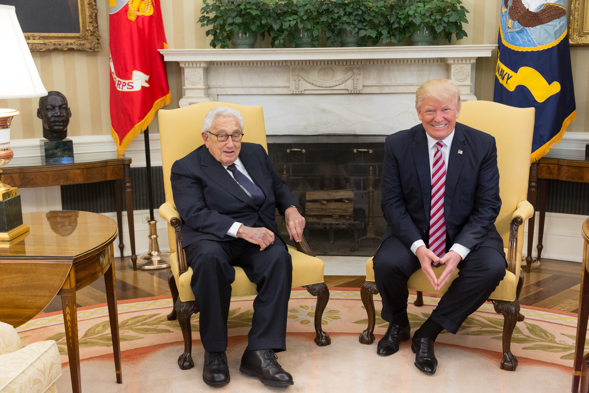 President Donald Trump meets with former National Security Advisor and Secretary of State Henry Kissinger, Wednesday, May 10, 2017, in the Oval Office of the White House in Washington, D.C. (Official White House Photo by Shealah Craighead)